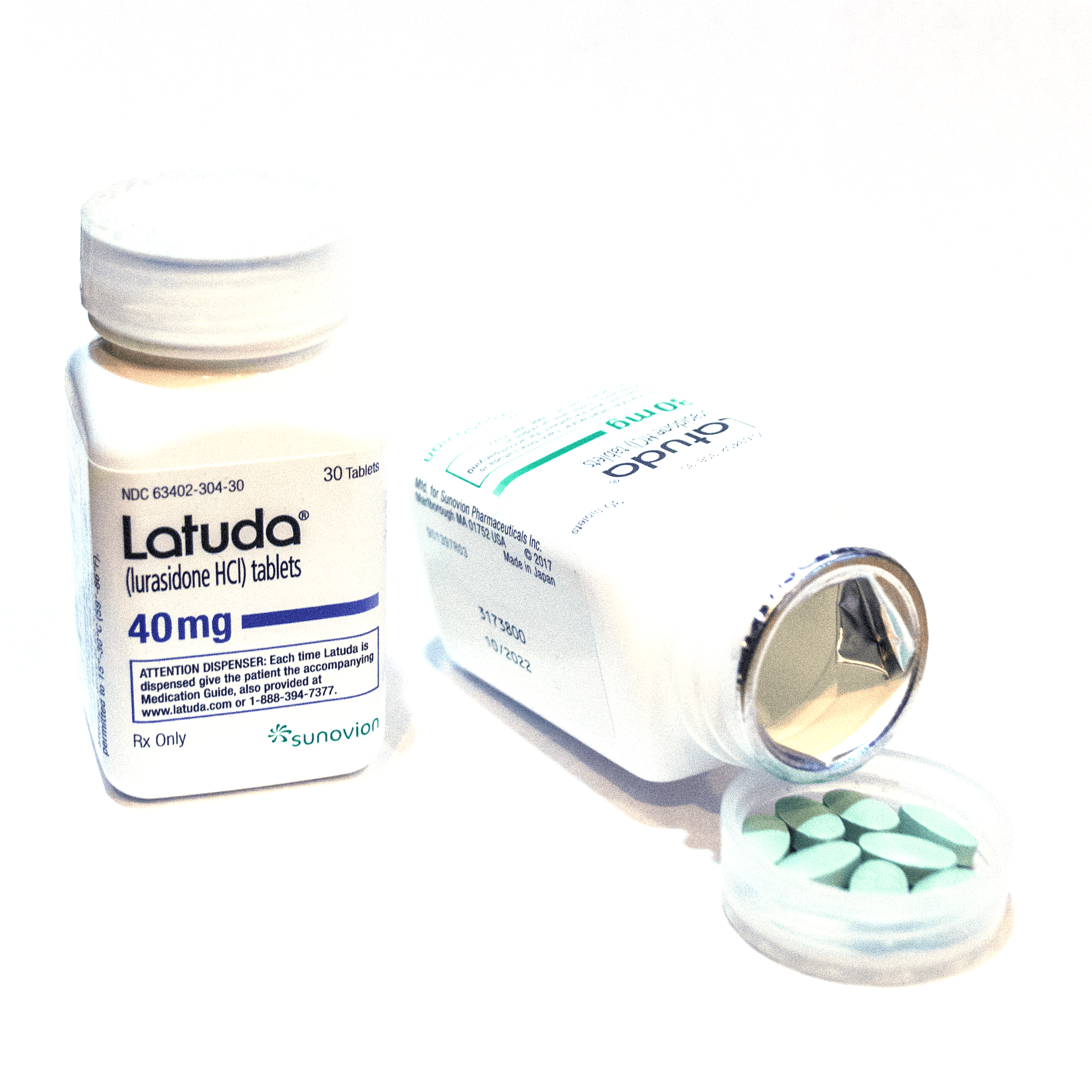 Image of Latuda (Lurasidone) bottles with 80mg Latuda tablets.